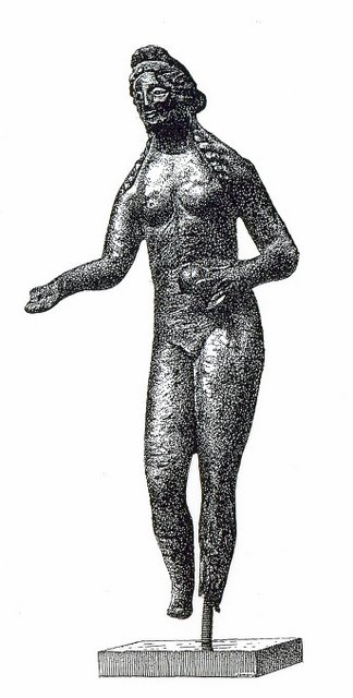 Statute of Venus in Campona (Nagytétény)